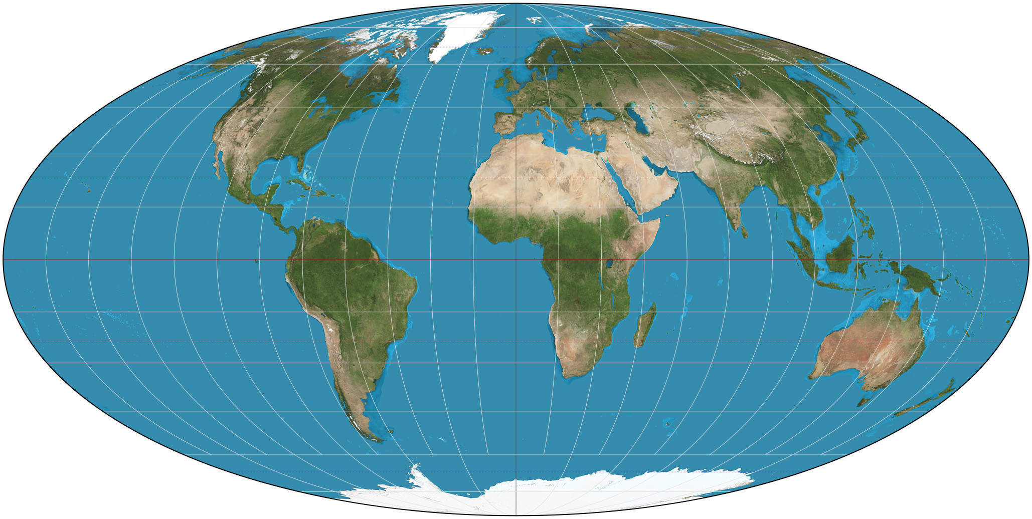 The world on Mollweide projection. 15° graticule. Imagery is a derivative of NASA’s Blue Marble summer month composite with oceans lightened to enhance legibility and contrast. Image created with the Geocart map projection software.